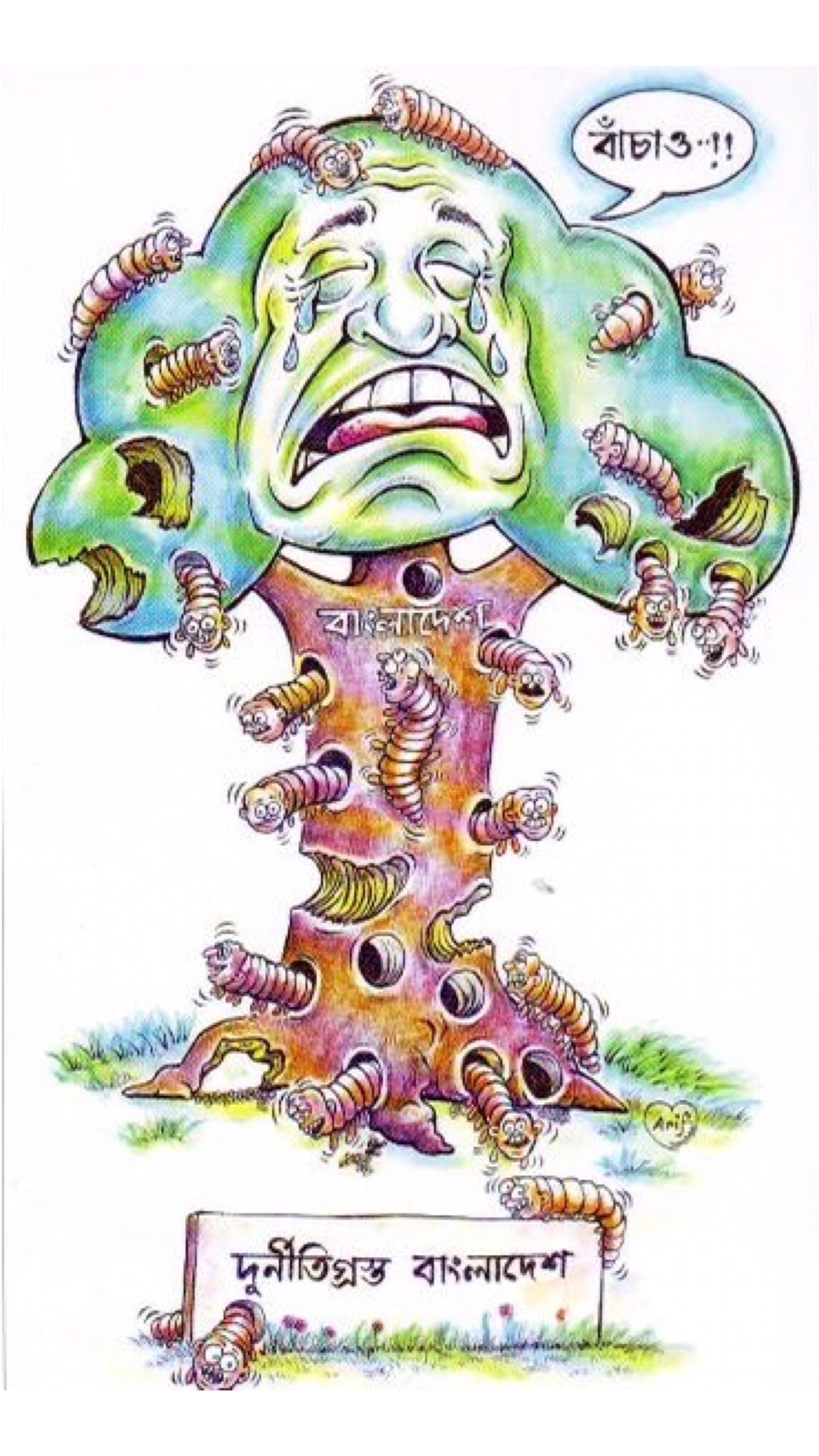 Transparency International Banglasesh (TIB) 2006 Award-winning Anti-corruption cartoon from archives. Cartoon by Arifur Rahman